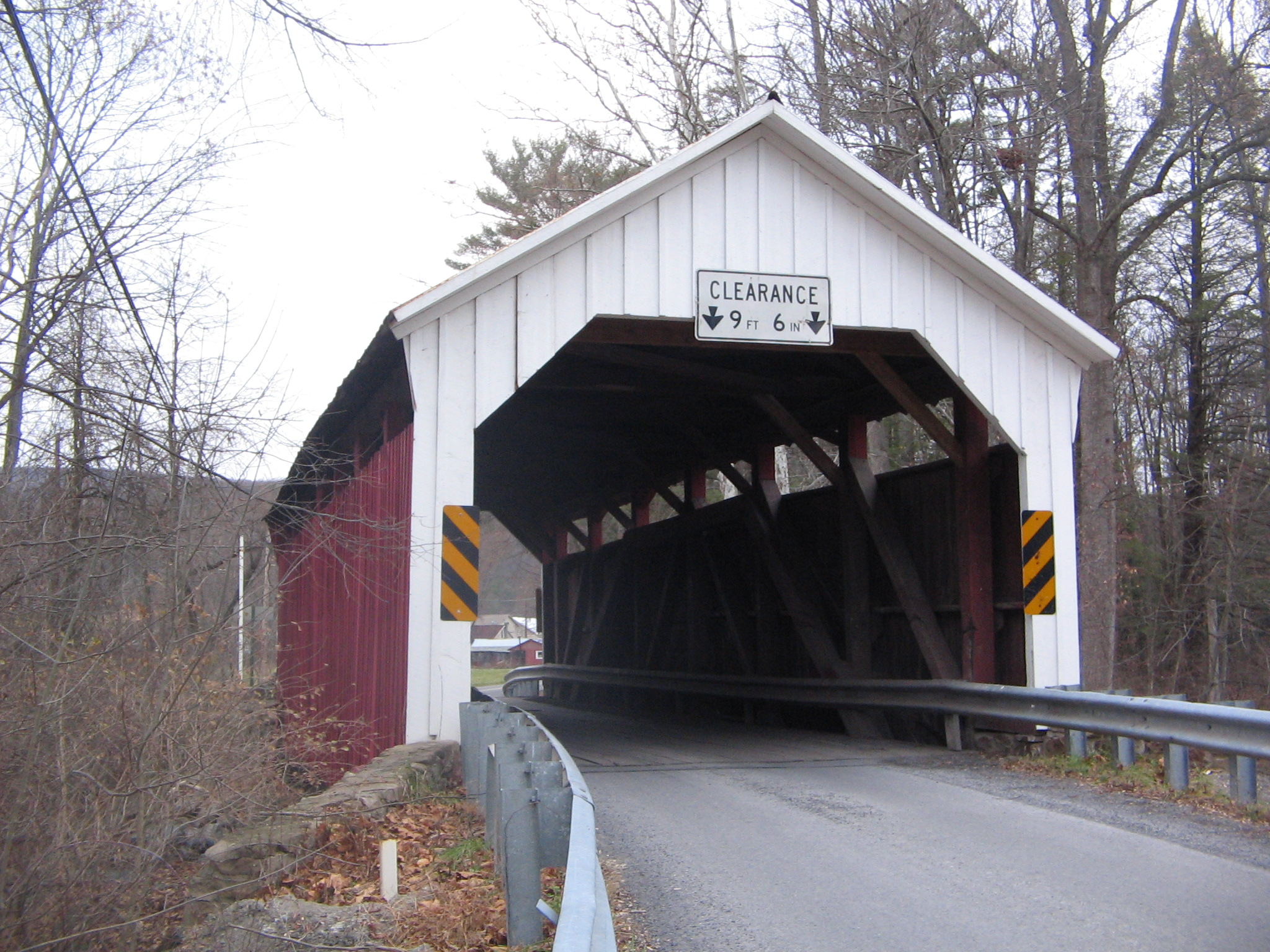 Factory Bridge originally built in 1880 over White Deer Creek in White Deer Township, Union County, Pennsylvania, in the United States.